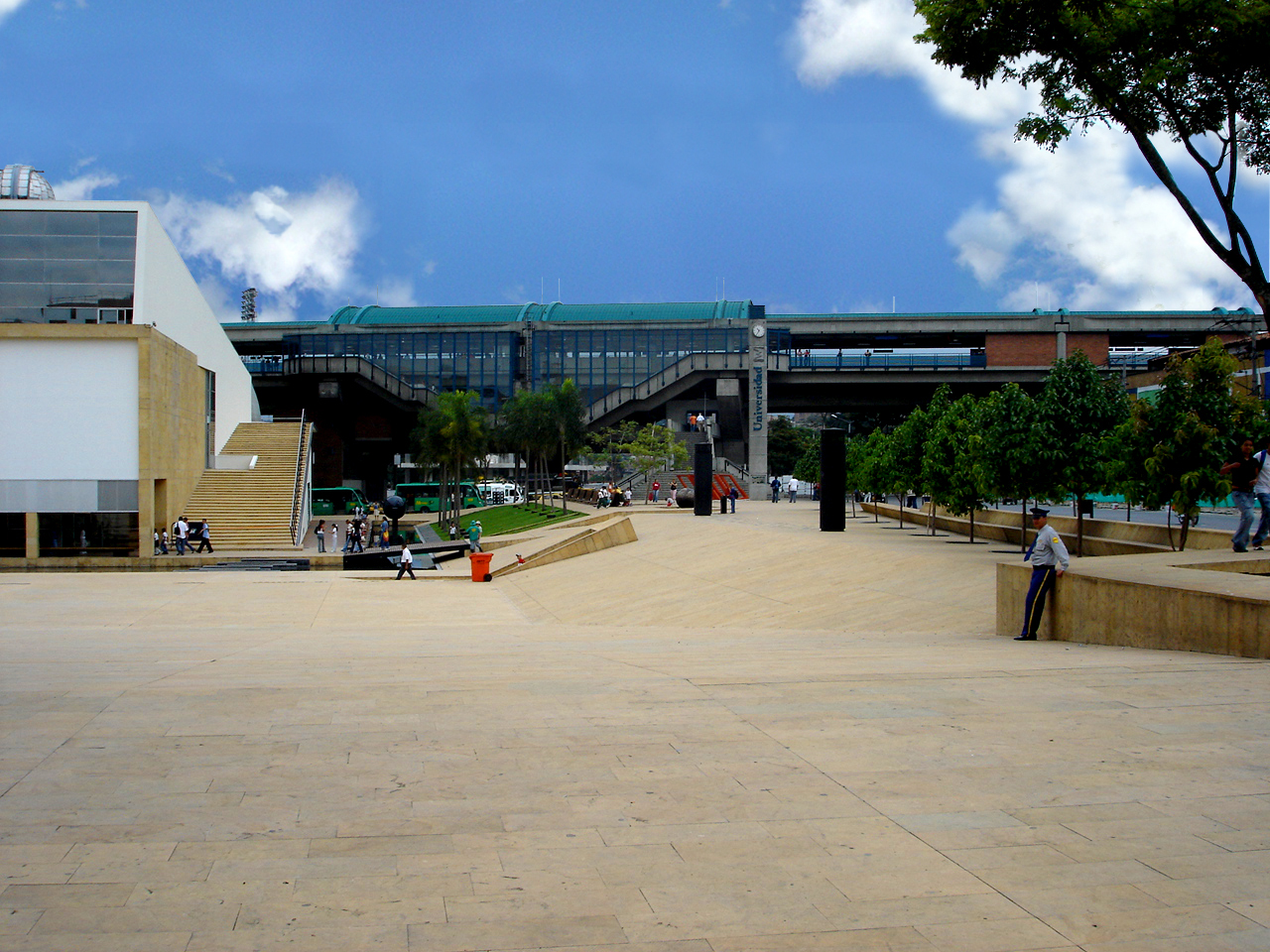 This image has been taken by the uploader on October 23rd., 2006